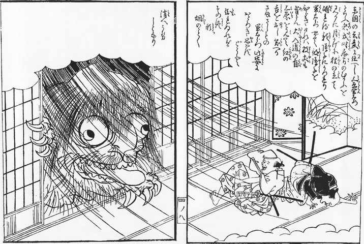 Ōkamuro (大かむろ, a giant face that appears at the door) from Ehon-Sayo-Shigure (絵本小夜時雨)